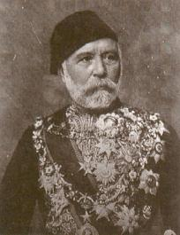 Portrait of Muhammad Sharif Pasha, three-time Prime Minister of Egypt.